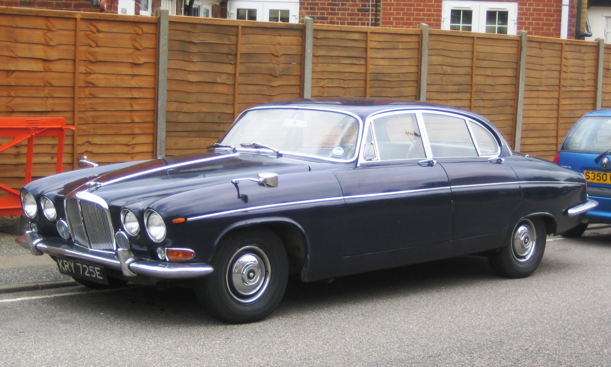 Jaguar 420 G in Essex DVLA: Date of first registration: January 1967 Year of manufacture: 1967 Cylinder capacity (cc): 4235 cc Vehicle colour: BLUE